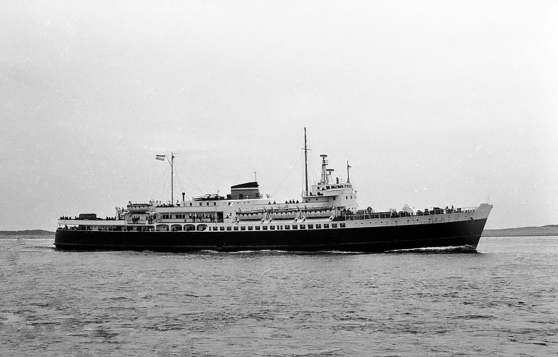 Prinses Beatrix (1) Entered Service. 31 May 1948 Withdrawn. September 1968 The new motor ships Koningin Emma and Prinses Beatrix escaped to England on 10th May 1940. The 1939 twins were renamed Queen Emma and Princess Beatrix by the Royal Navy, and during 1942 they took part as landing vessels for the commando raids. Koningin Emma and Prinses Beatrix were rebuilt and refurbished for civilian service in 1947 and 1948, and in the latter year, they took places on the day service from the Hook of Holland to Harwich. In September 1968 the Prinses Beatrix laid up in Schiedam.